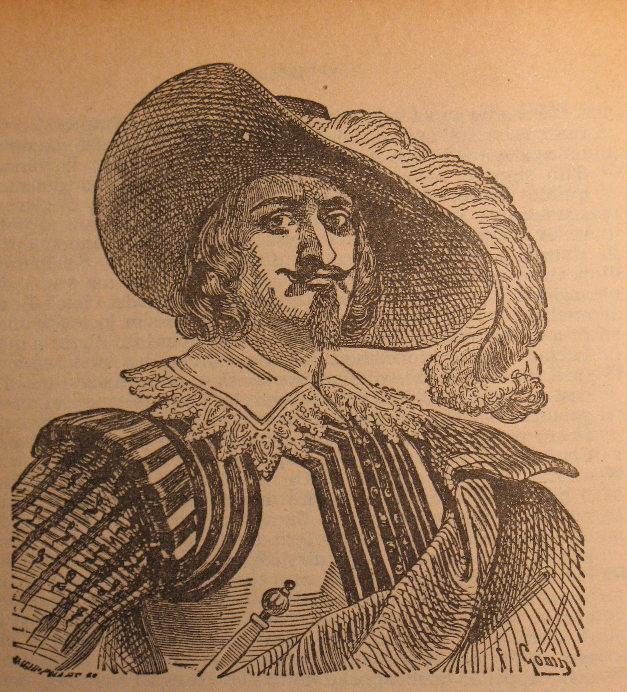 Picture from "I promessi sposi" of don Rodrigo